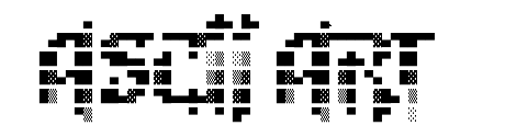 ascii art example. "Block" or "High ASCII" style, cf. ANSI art.